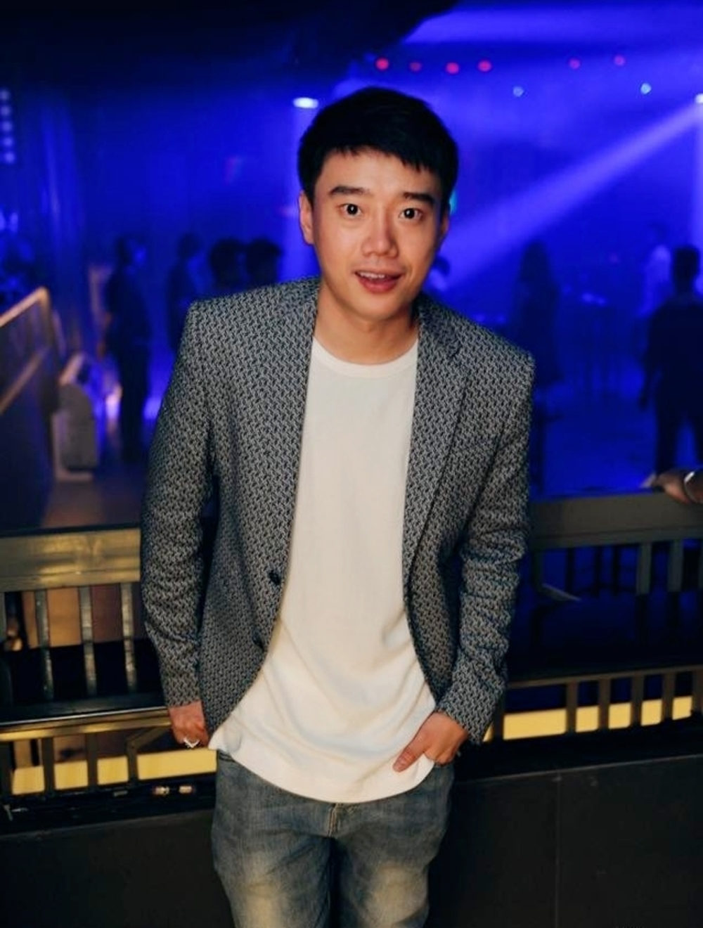 Hip Hop singer Ah Boy at the FUSE